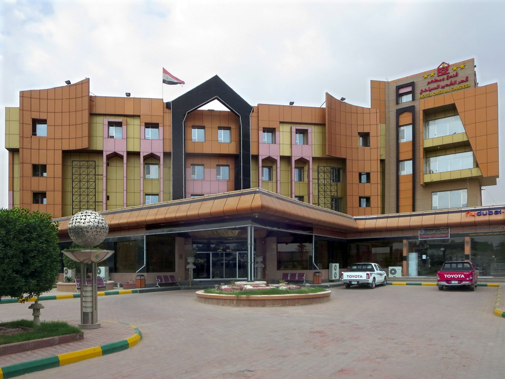 Qaser Al Gaader Hotel in Samawah in Iraq